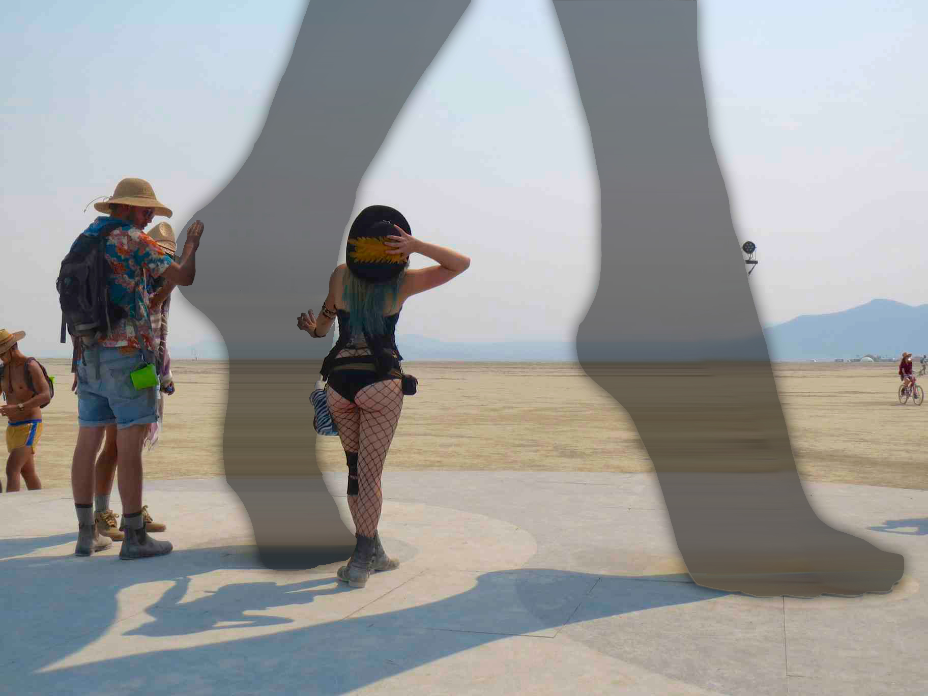 "Truth is Beauty is the second sculpture in a three-part series featuring singer/dancer Deja Solis, the first of which was Bliss Dance (2010). For Truth is Beauty, Deja stands on her toes, head back, arms raised, in an expression of radical self-acceptance and love. She can do this because she is safe. With the female body exposed and demystified you will see past what has been objectified and used to disempower: it’s the feeling, energy, strength, power… the person that remains. These sculptures featuring women safe in the present to express themselves, are meant to help raise consciousness around violence against women, begin a healing process to make room for women’s voices, and ultimately result in a balance of energy that will allow women and men to thrive… My intent is that these sculptures express this healing energy and inspire us to take action; to finally say enough is enough!" - from Note: the sculpture on the original photograph was replaced with the transparent silhouette to avoid the copyright issue.